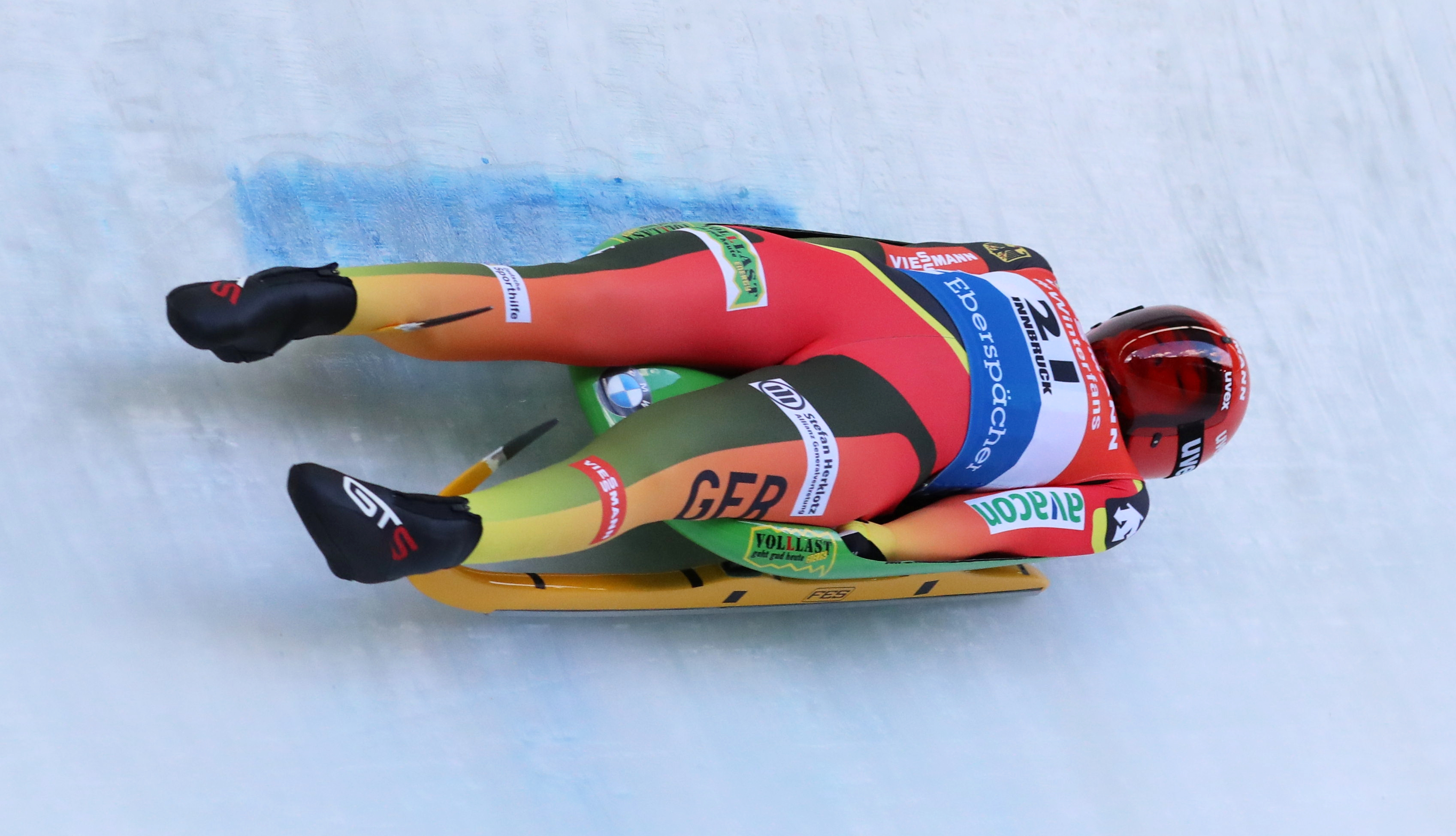 Women's World Cup race at the 2018/19 Luge World Cup in Innsbruck-Igls